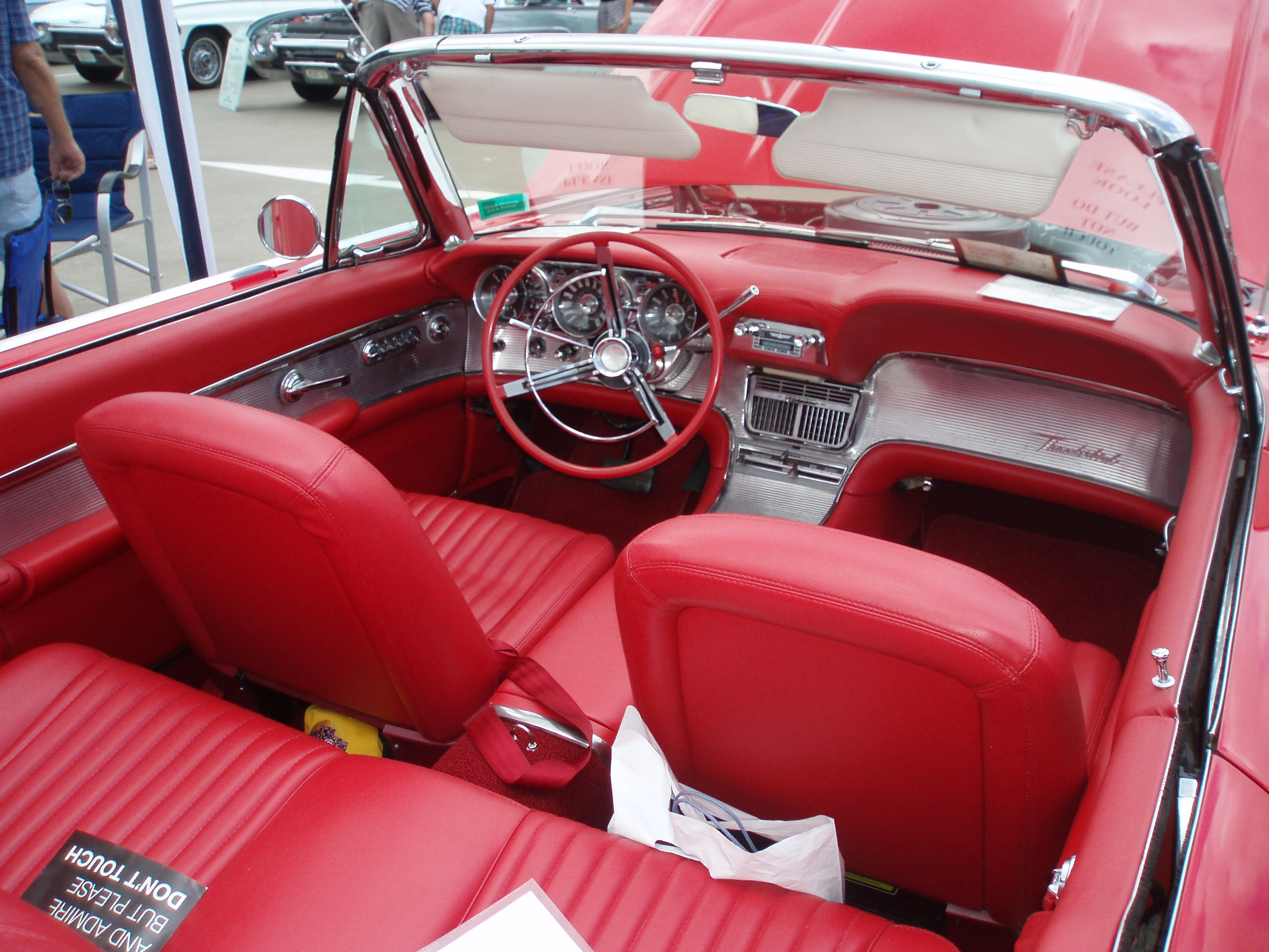 1961 Ford Thunderbird convertible interior. Taken at the 2011 New South Wales All American Day, held at Castle Towers Shopping Centre, Castle Hill, Sydney.